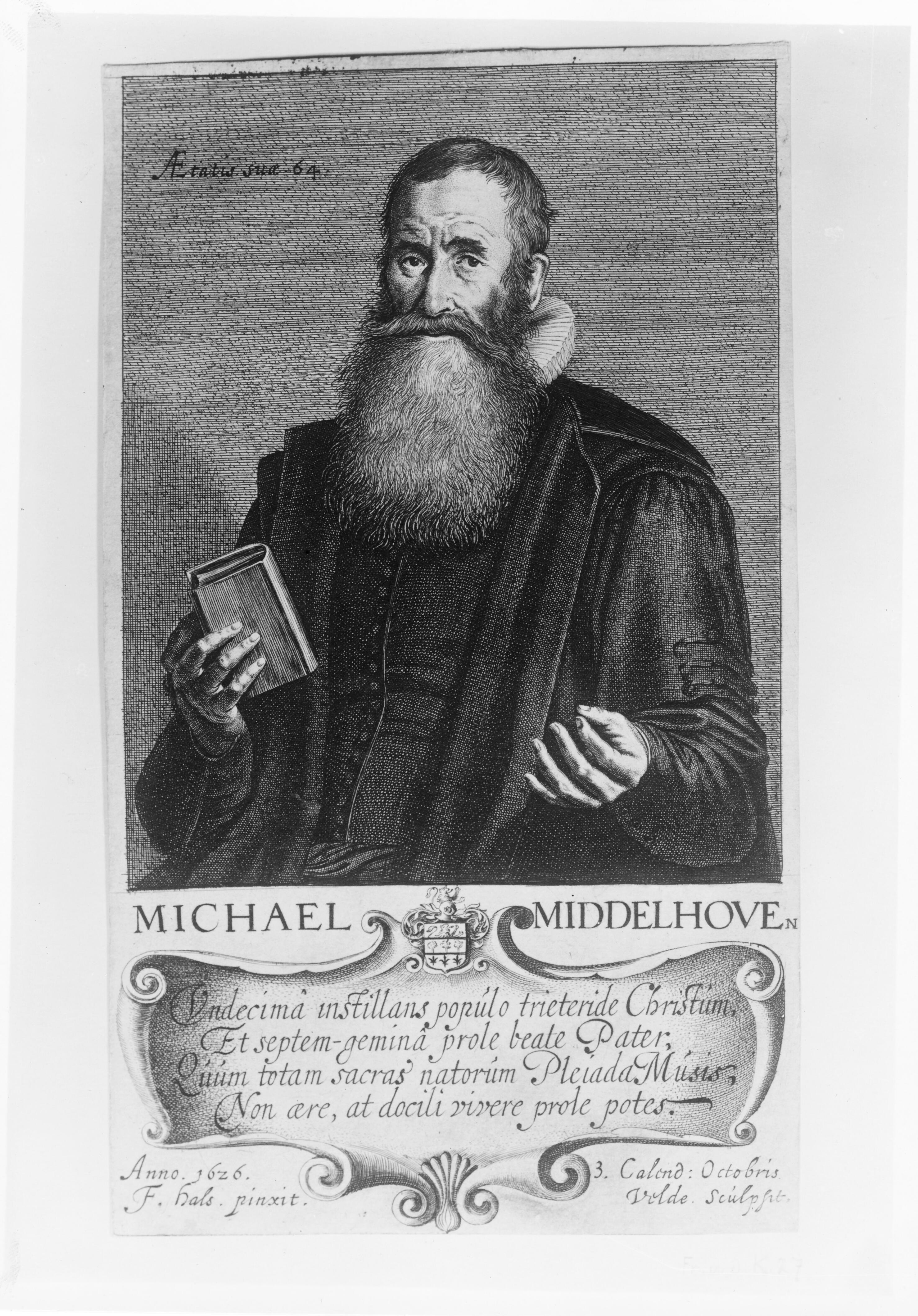 Engraved portrait of Michael Middelhoven, after Frans Hals etching and engraving 17th century inscribed: 'AEtatis. suae. 64.' MICHAEL MIDDELHOVEn Vndecima instillans populo trieteride Christum, Et septem-gemina prole beate Pater, Quum totam sacras natorum Pleiada Musis, Non aere, at docili vivere prole potes. Anno 1626. 3. Calend: Octobris F. hals. pinxit. 'Velde Sculpsit.